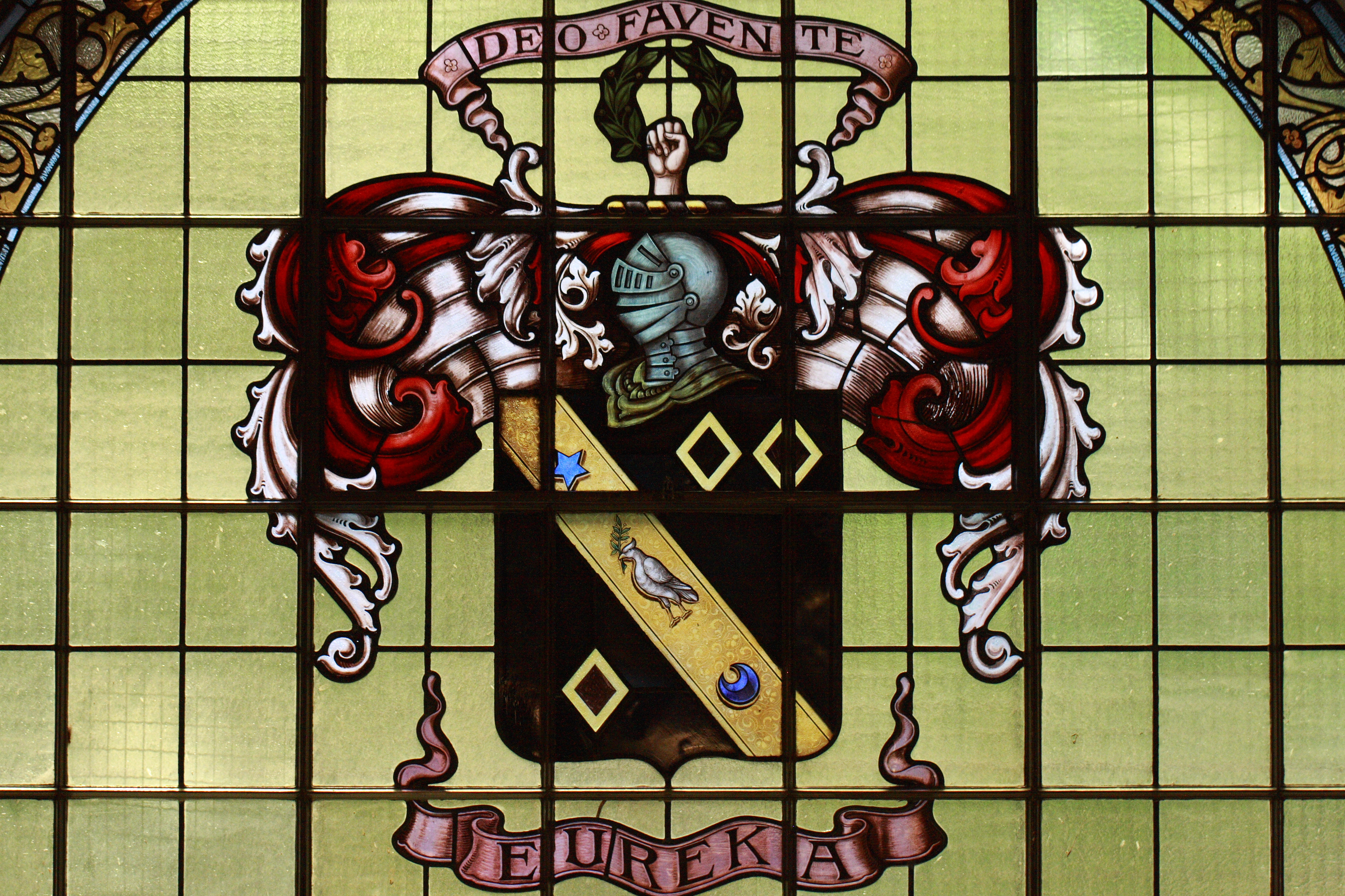 Detail of the Mitchell Library at the State Library of New South Wales.